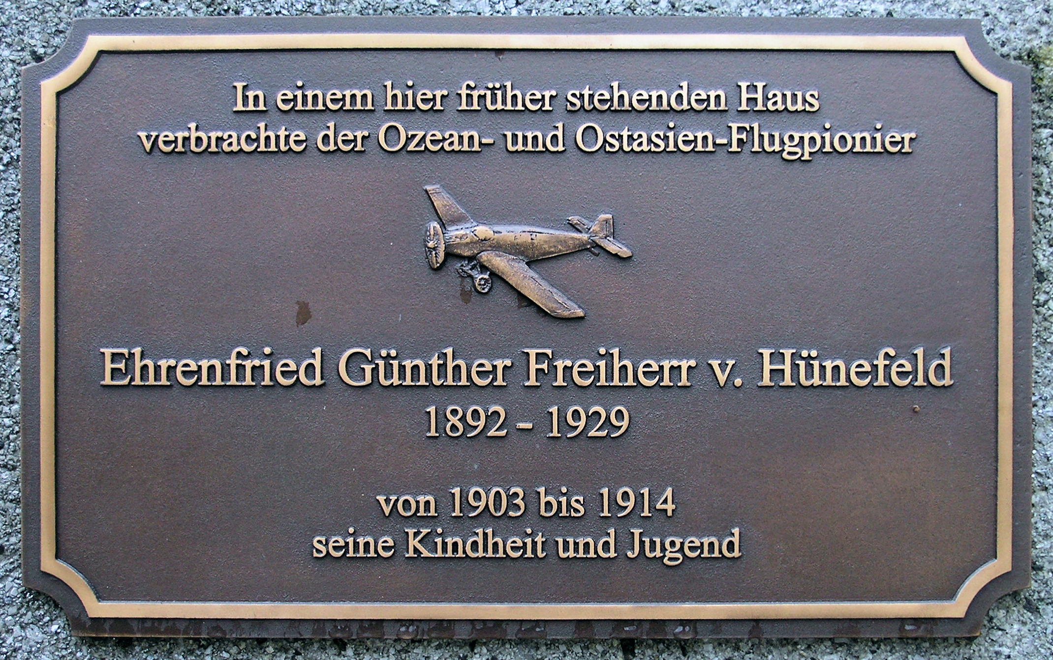 Memorial plaque, Ehrenfried Günther Freiherr von Hünefeld, Ellwanger Straße 6, Berlin-Steglitz, Germany